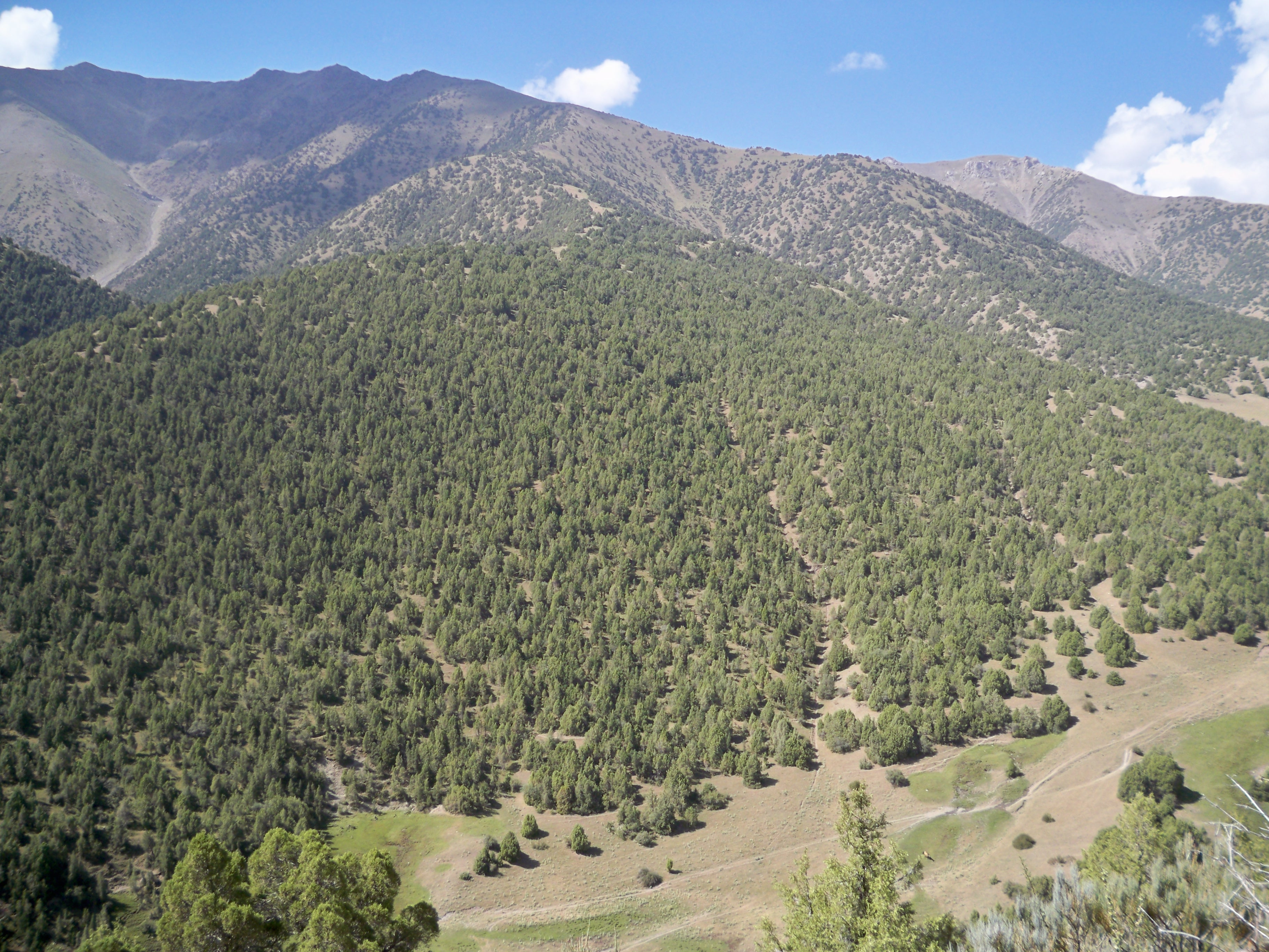 Mountains located south of Isfana